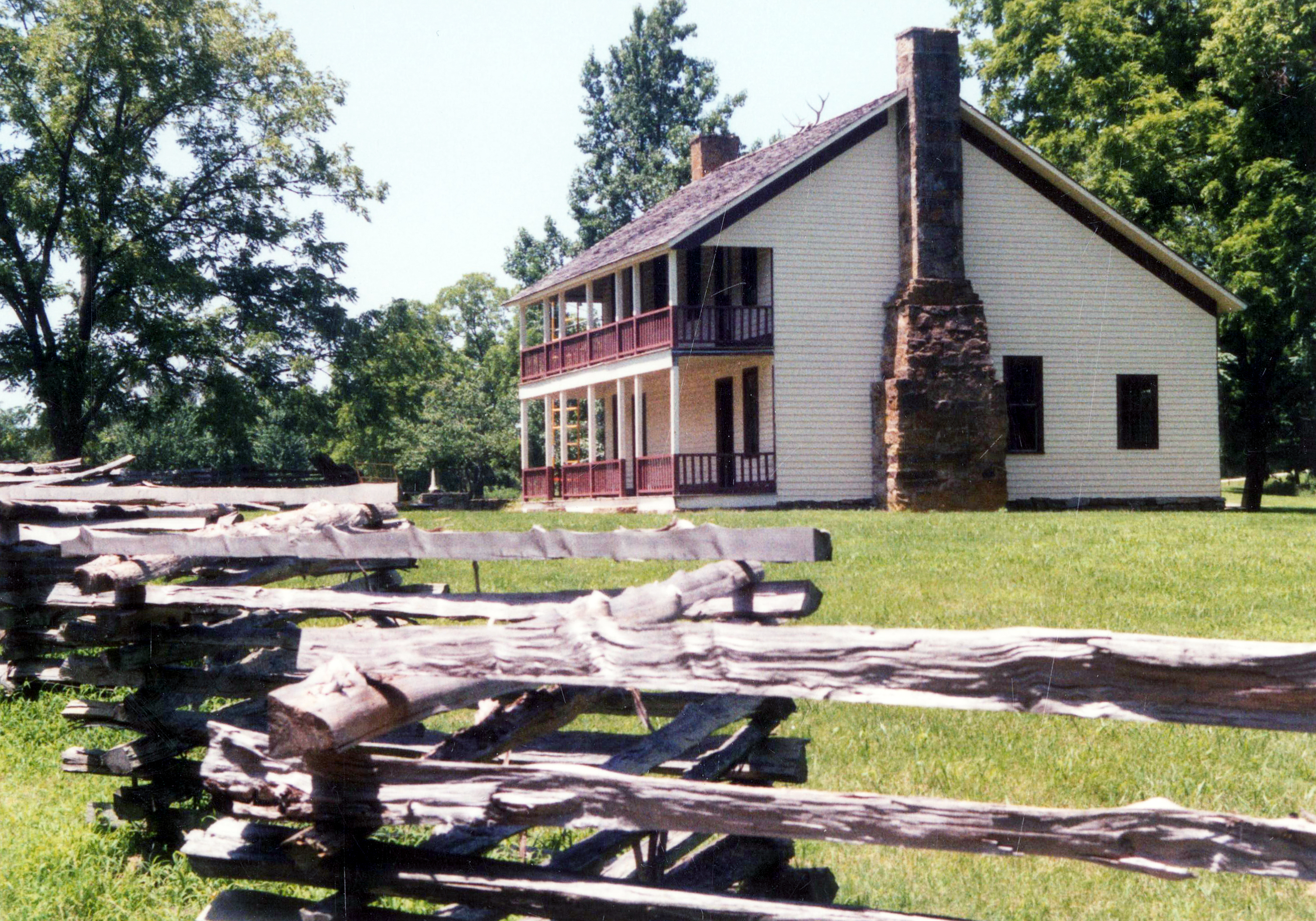 Elkhorn Tavern, scene of bitter fighting. Pea Ridge NMP